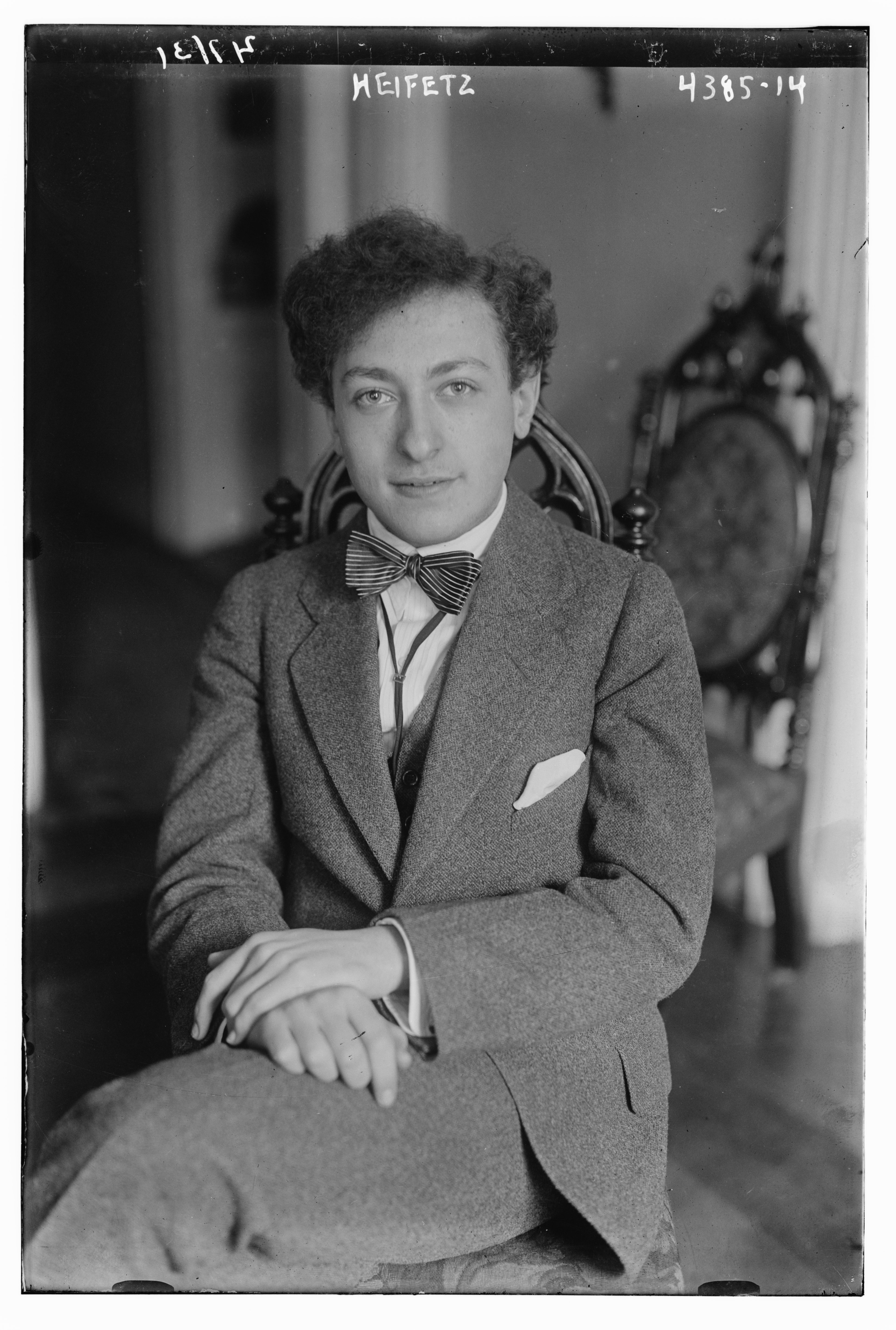 Jascha Heifetz in 1917